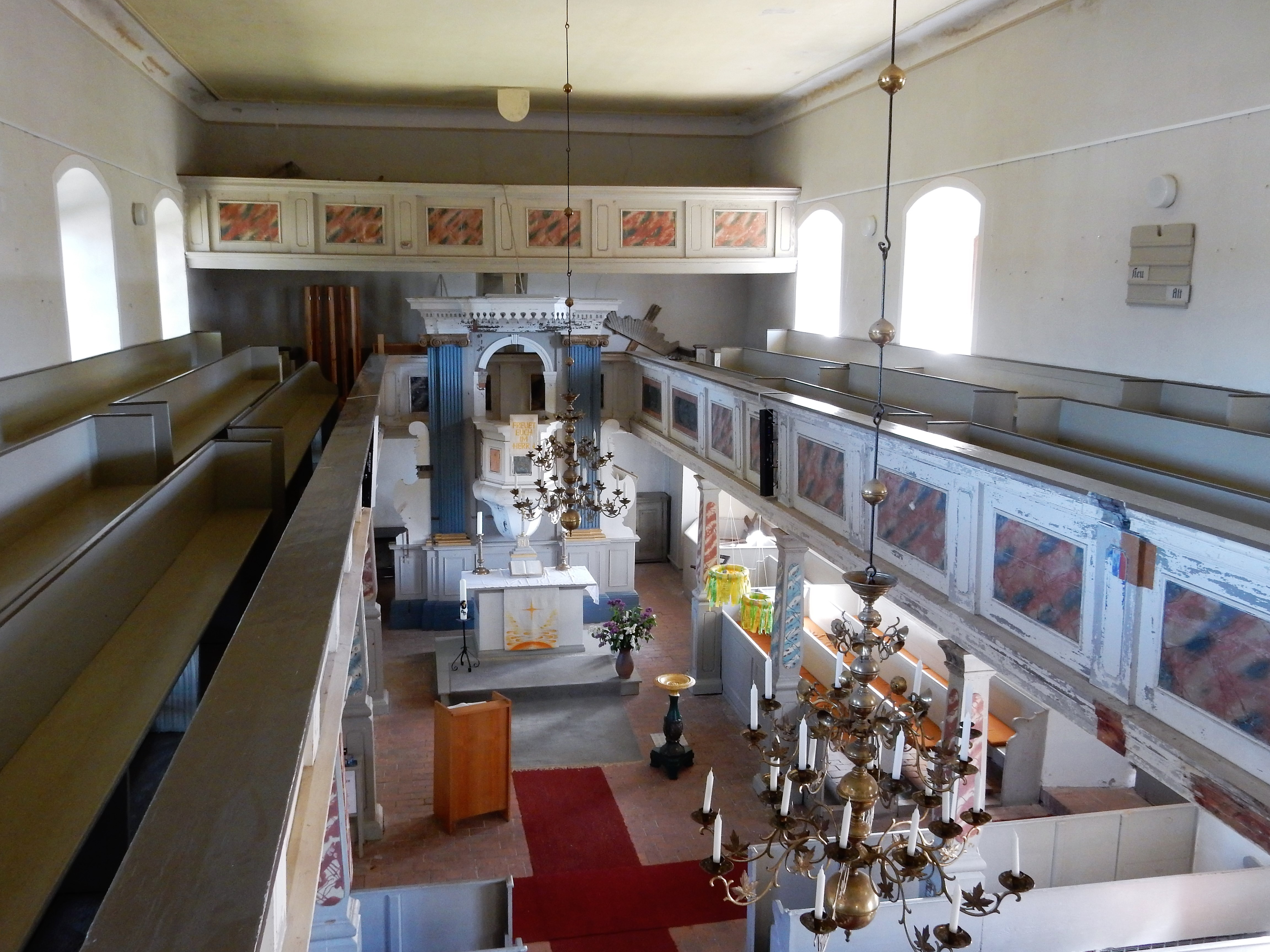 Immanuel church in Gross Schoenebeck, Branim, Brandenburg, view to the altar